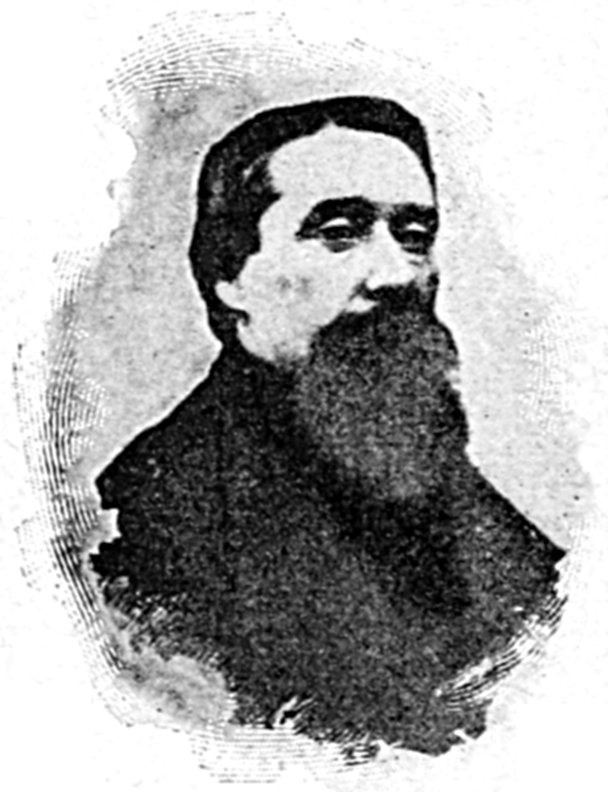 Illustration from book Storia dei Mille by Giuseppe Cesare Abba - Giovanni Acerbi